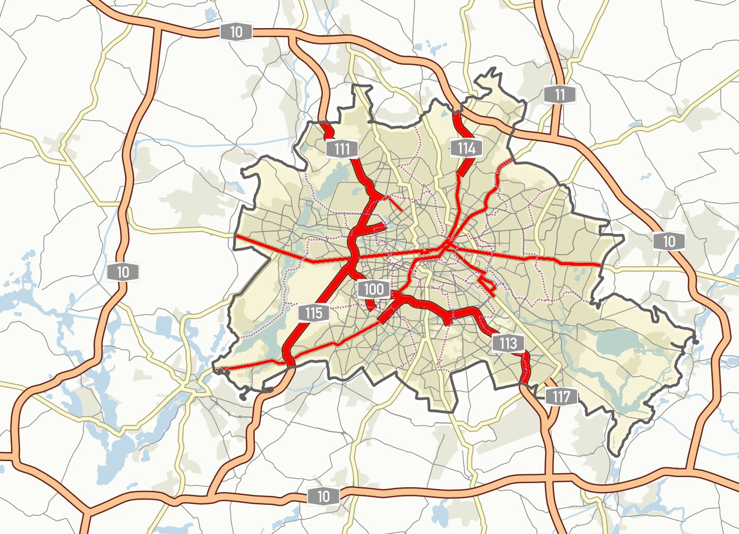 high priority street network of Belrin